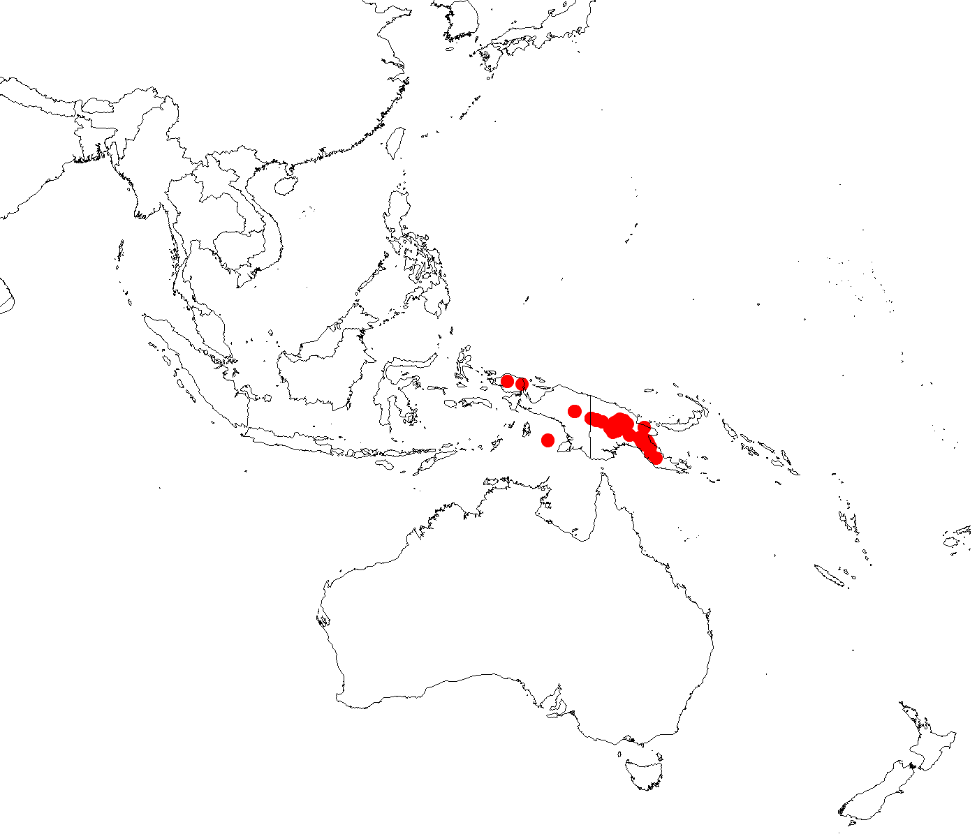 Parsonsia sanguinea Occurrence data downloaded from (21 December 2018) GBIF Occurrence Download